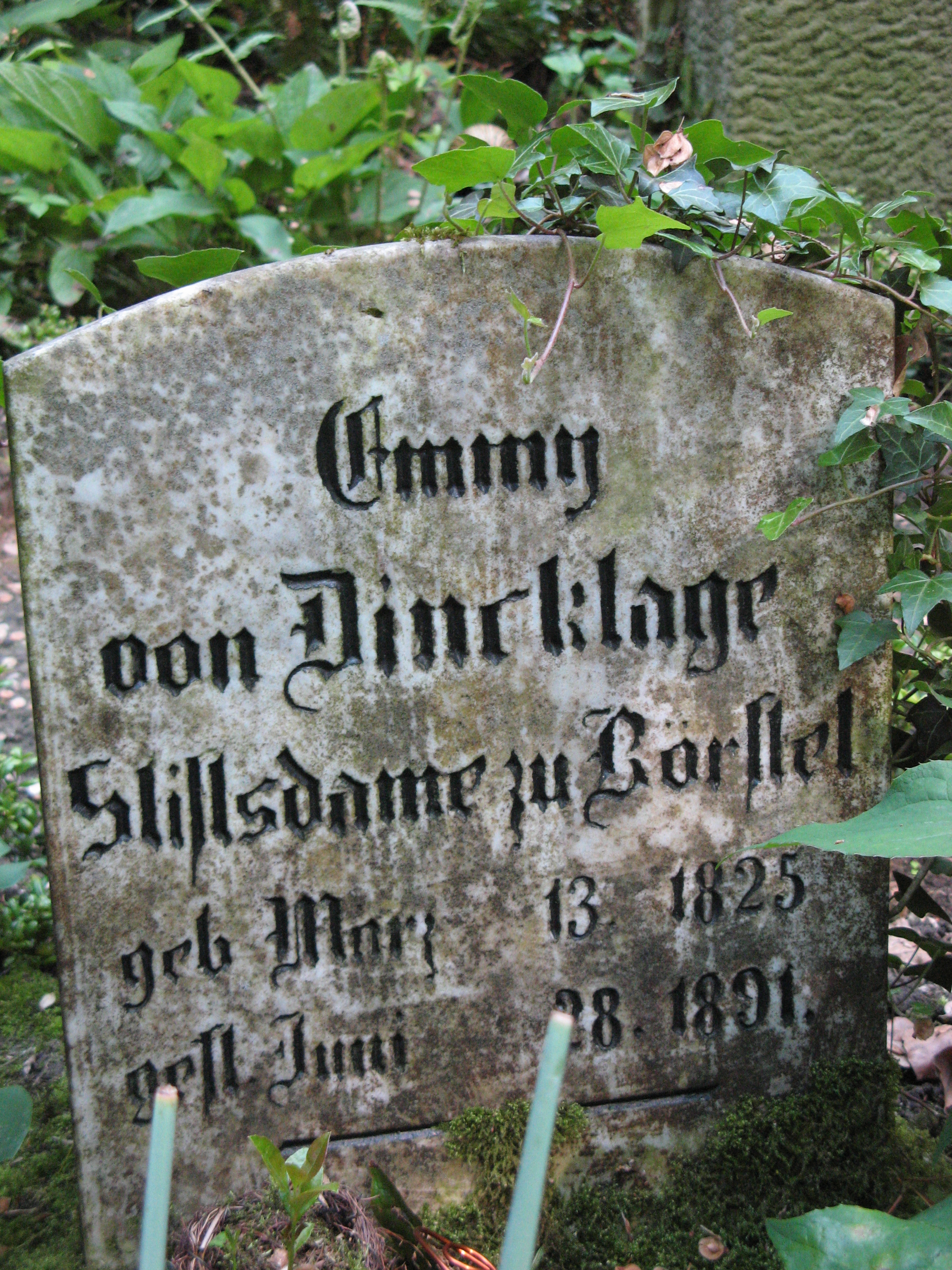 Gravestone for Emmy von Dincklage